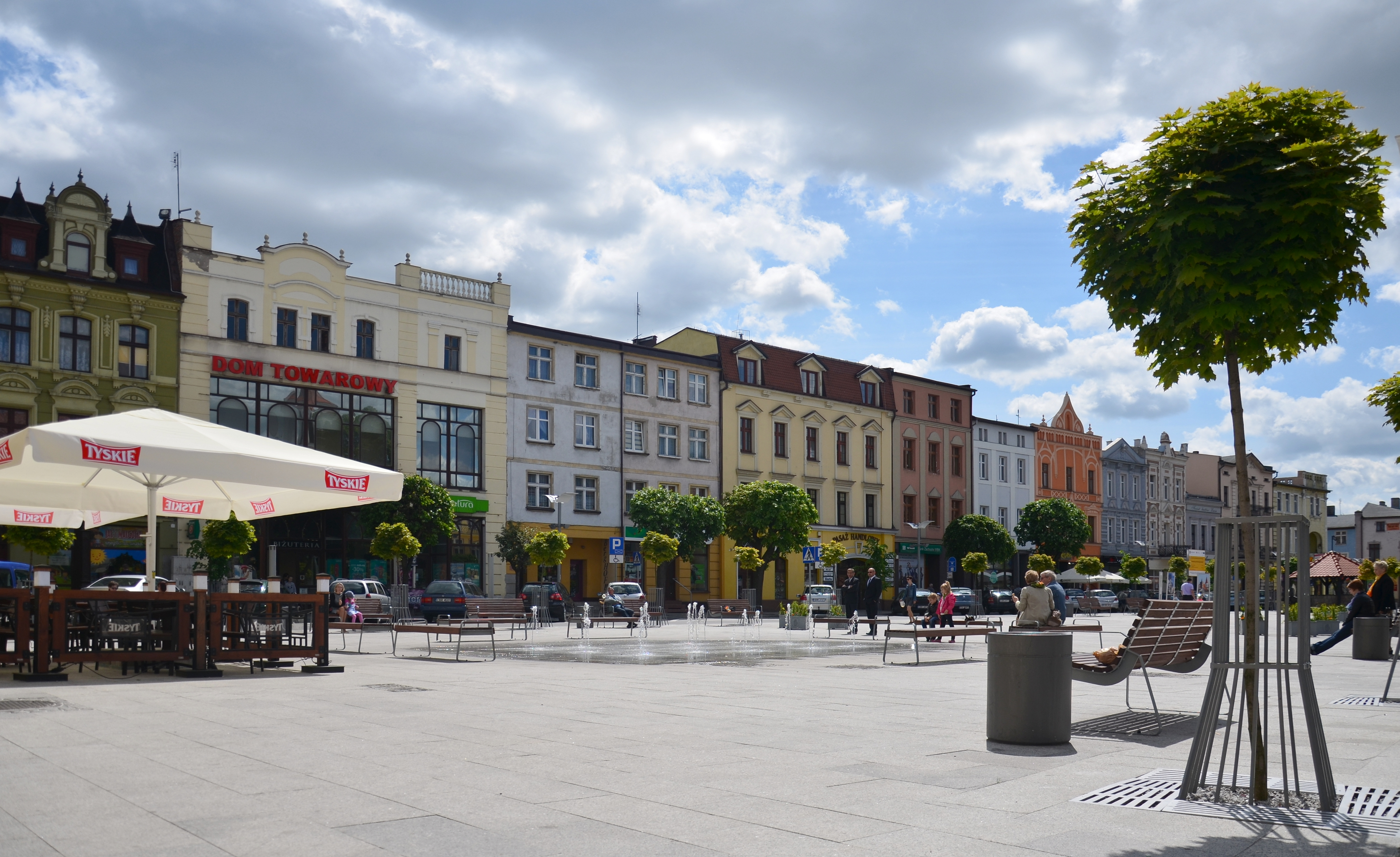 Market square (Duży Rynek) in Brodnica, fountain and eastern frontage